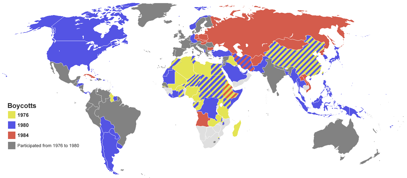 Suriname boycotted